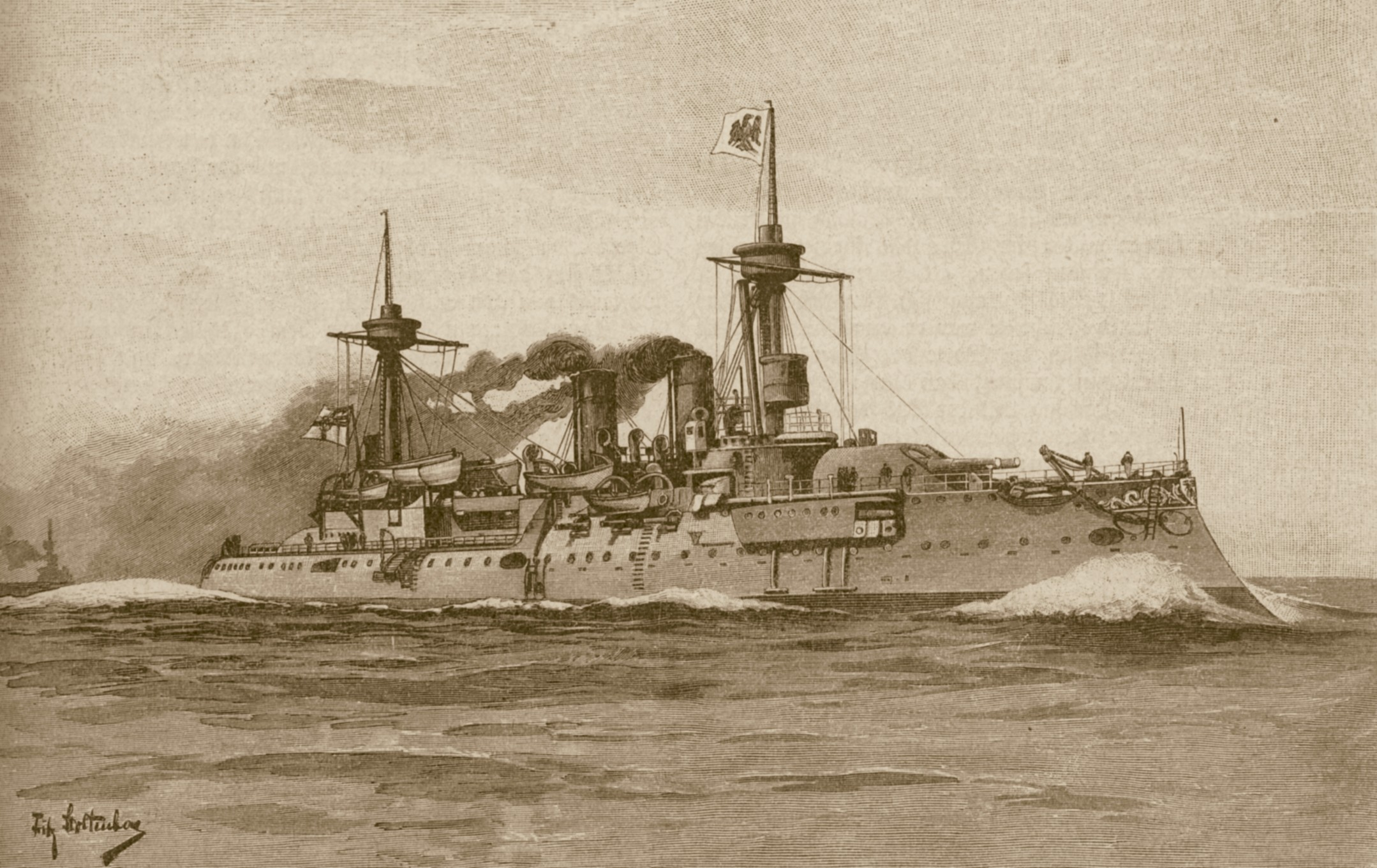 SMS Brandenburg